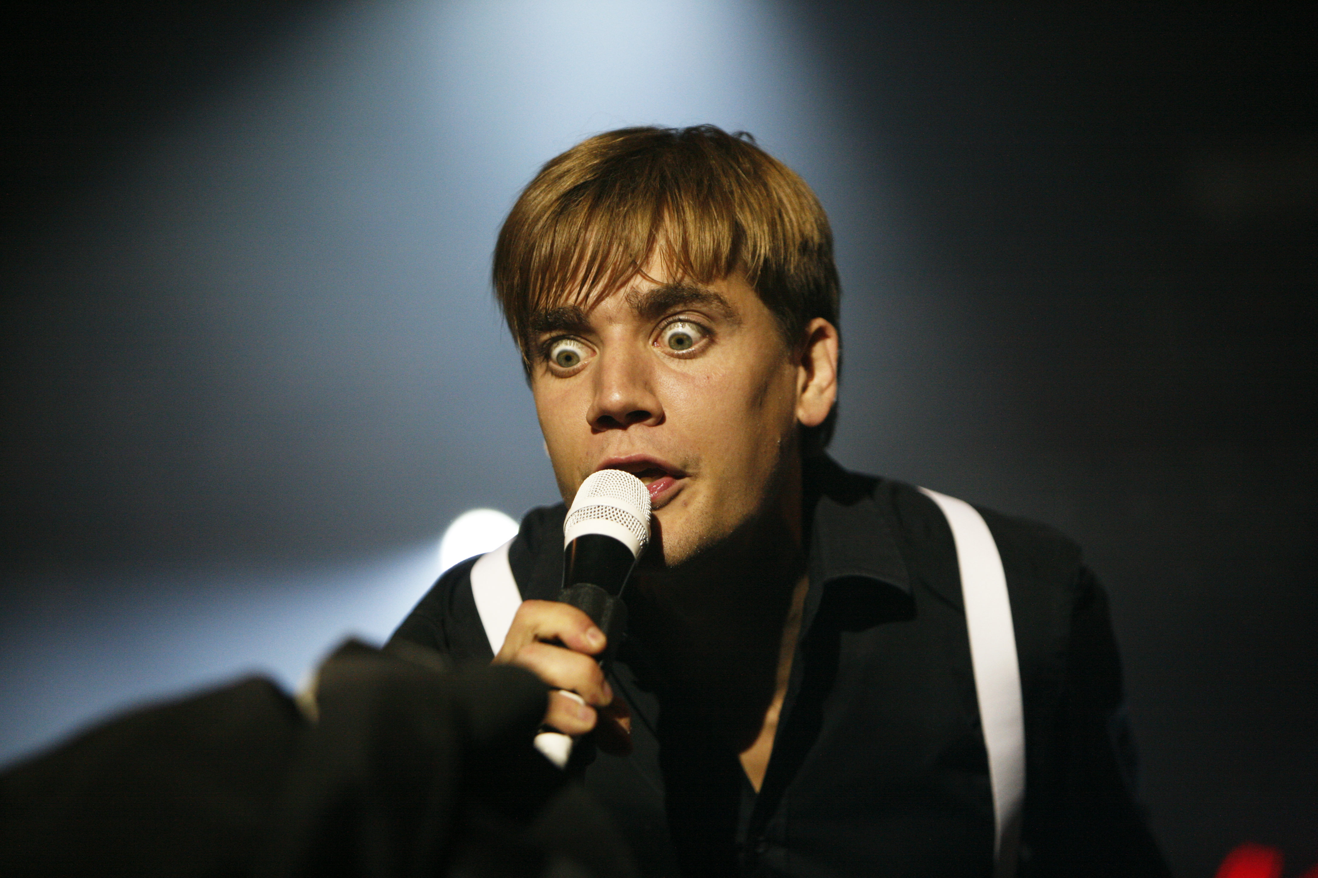 The Hives at the Eurockéennes of 2007